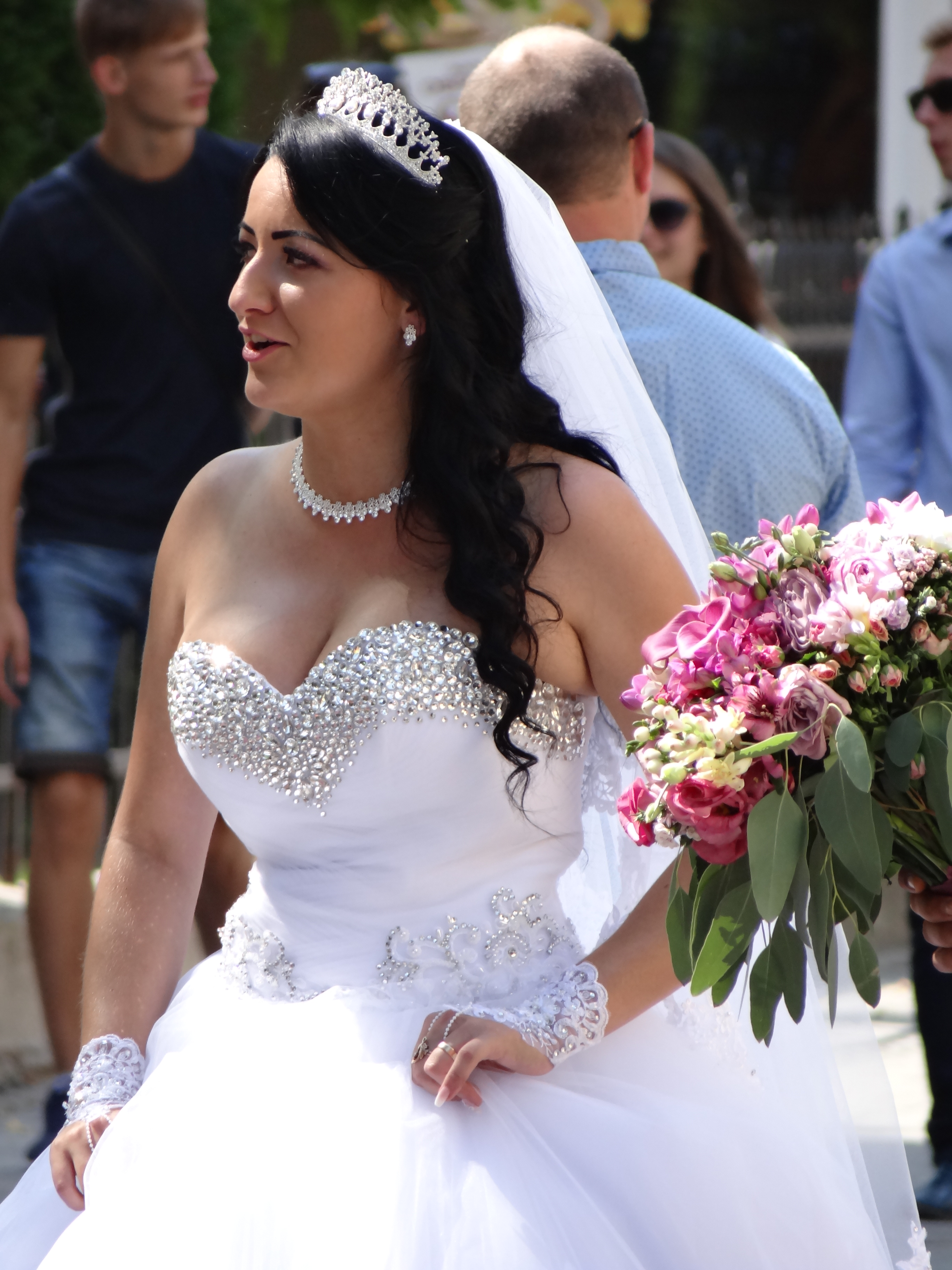 Bride on Her Wedding Day - Berehove - Ukraine